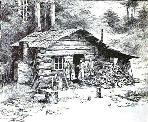 Illustration titled "With the Humboldt Trappers" & labeled "The trapper's cabin" in the article about hunting and trapping in Humboldt County, California. The cabin may have belonged to Seth Kinman, as at least 2 other illustrations in the article are Kinman related.